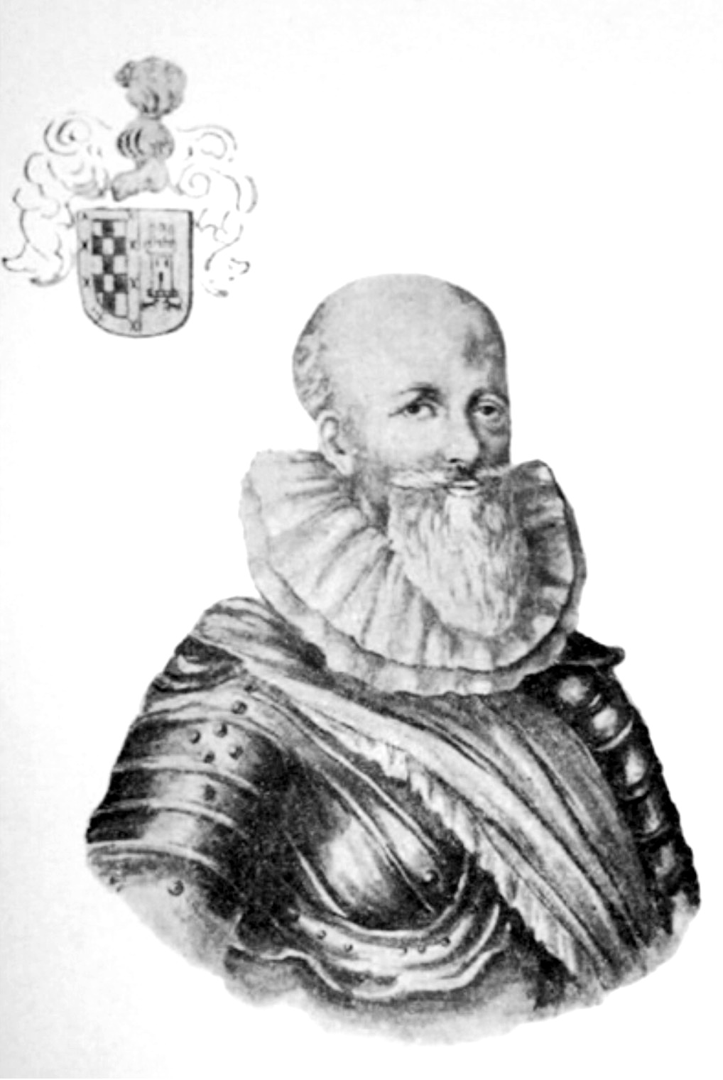 Presumed portrait of spanish conquistador Bernal Díaz Del Castillo, based in the depiction of the french king Henry the IV, by Genaro García 1904